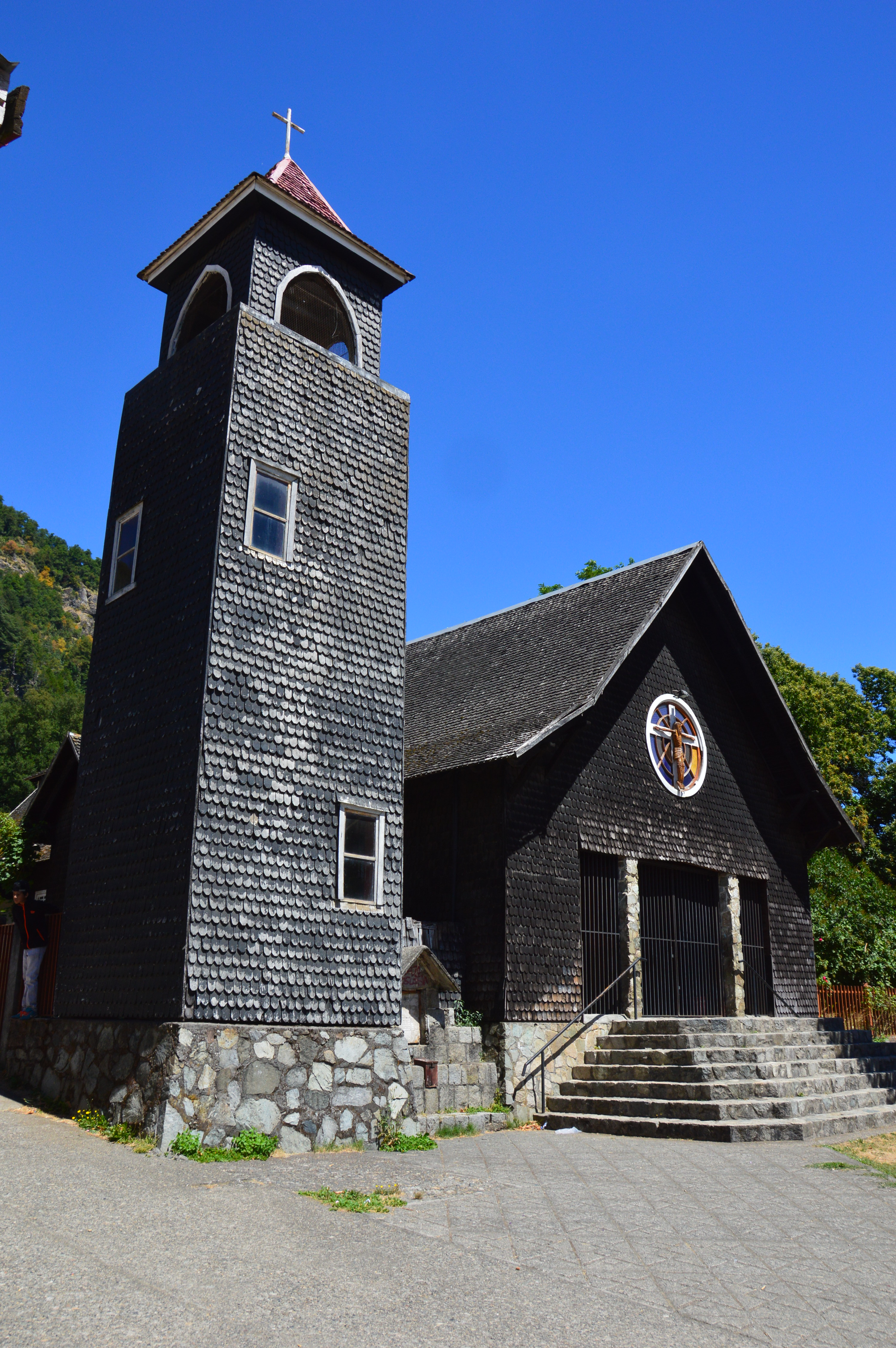 Catholic Church of Curarrehue